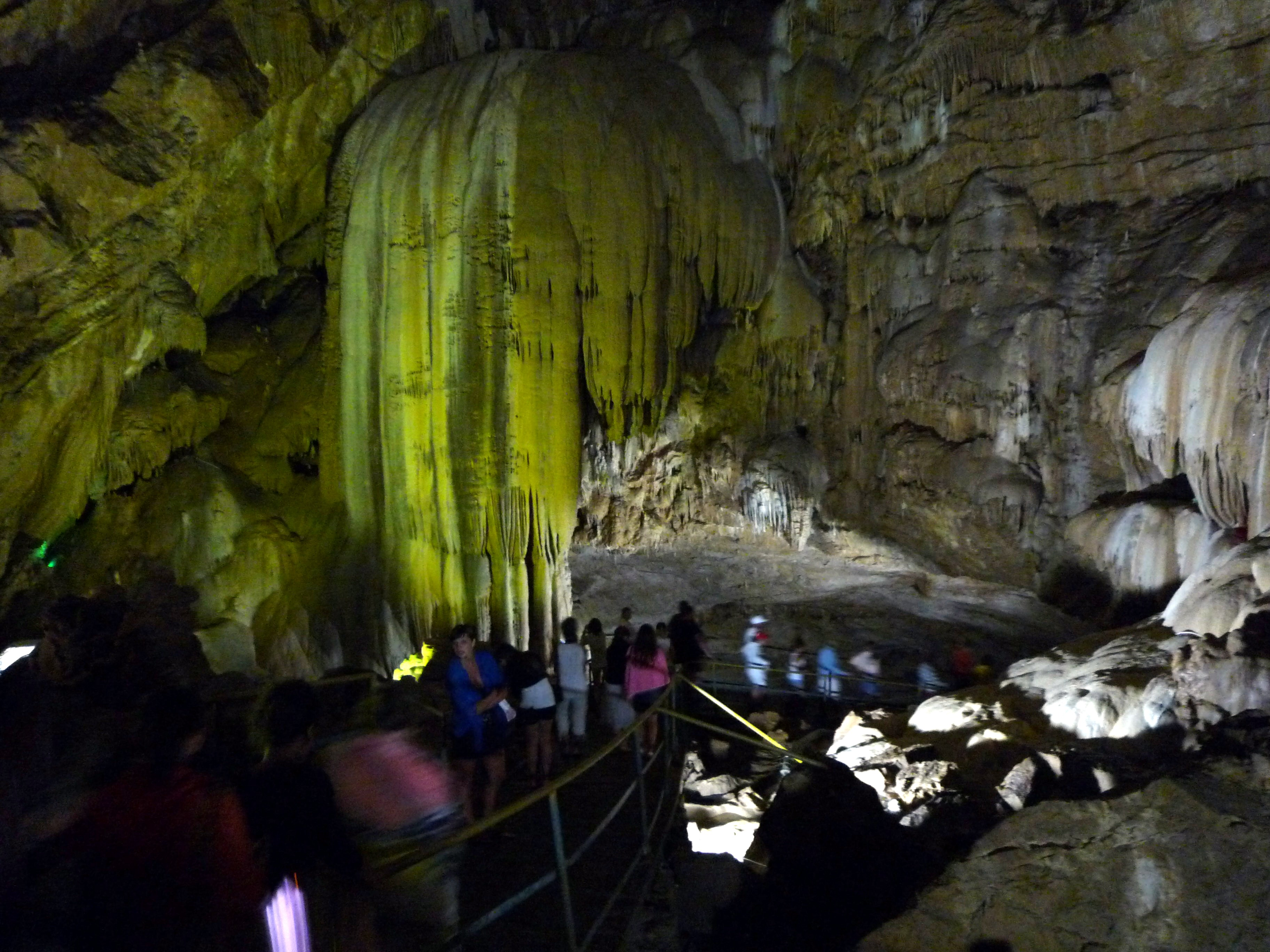 New Athos Cave. Hall Geliktovy grotto. Rock Falls Apsny.